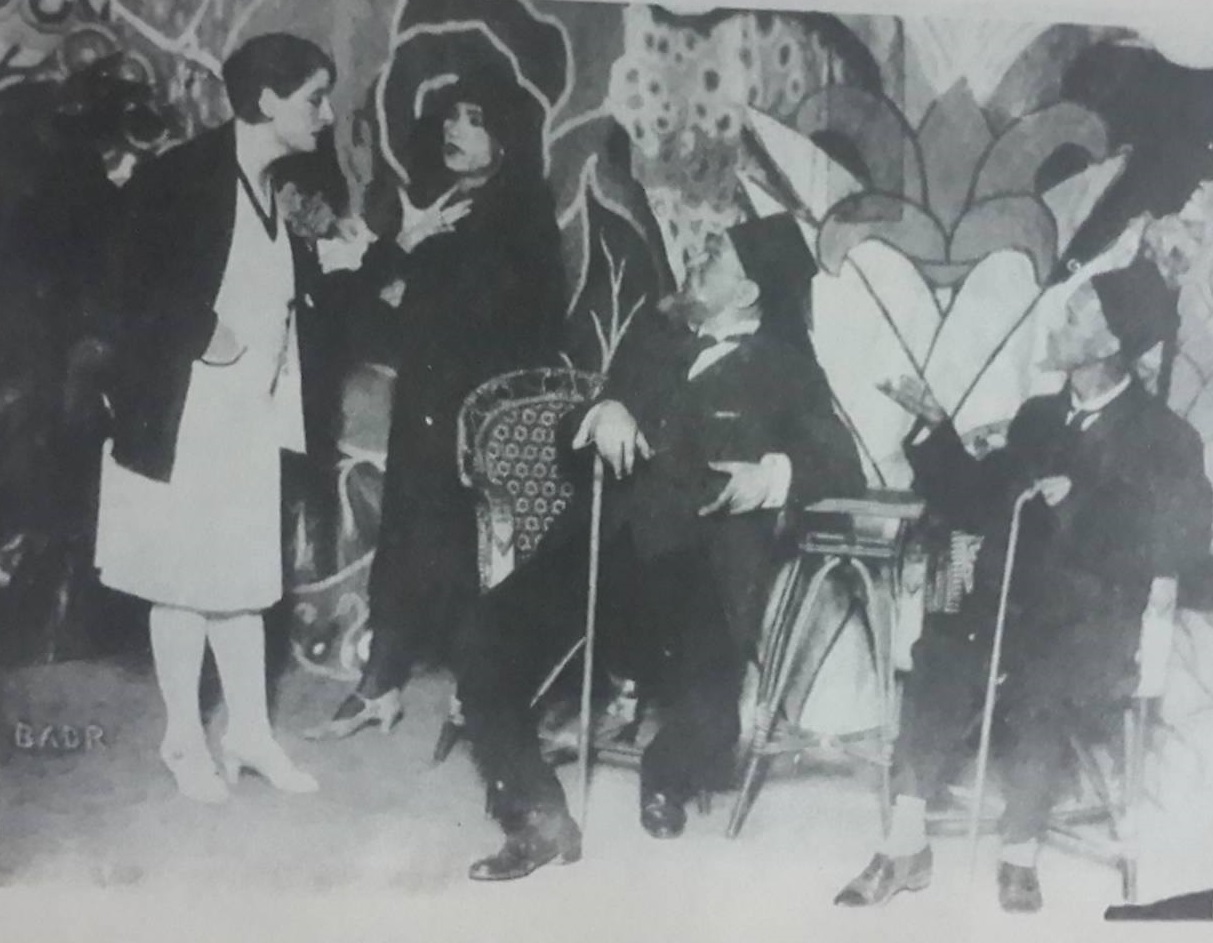 Naguib el-Rihani (sitting in the middle) and Badi'a Massabni (standing on the left), and Hussein Ibrahim (between both of them), in a play called Ana wa Ant (Me and you), which was played in 1929.